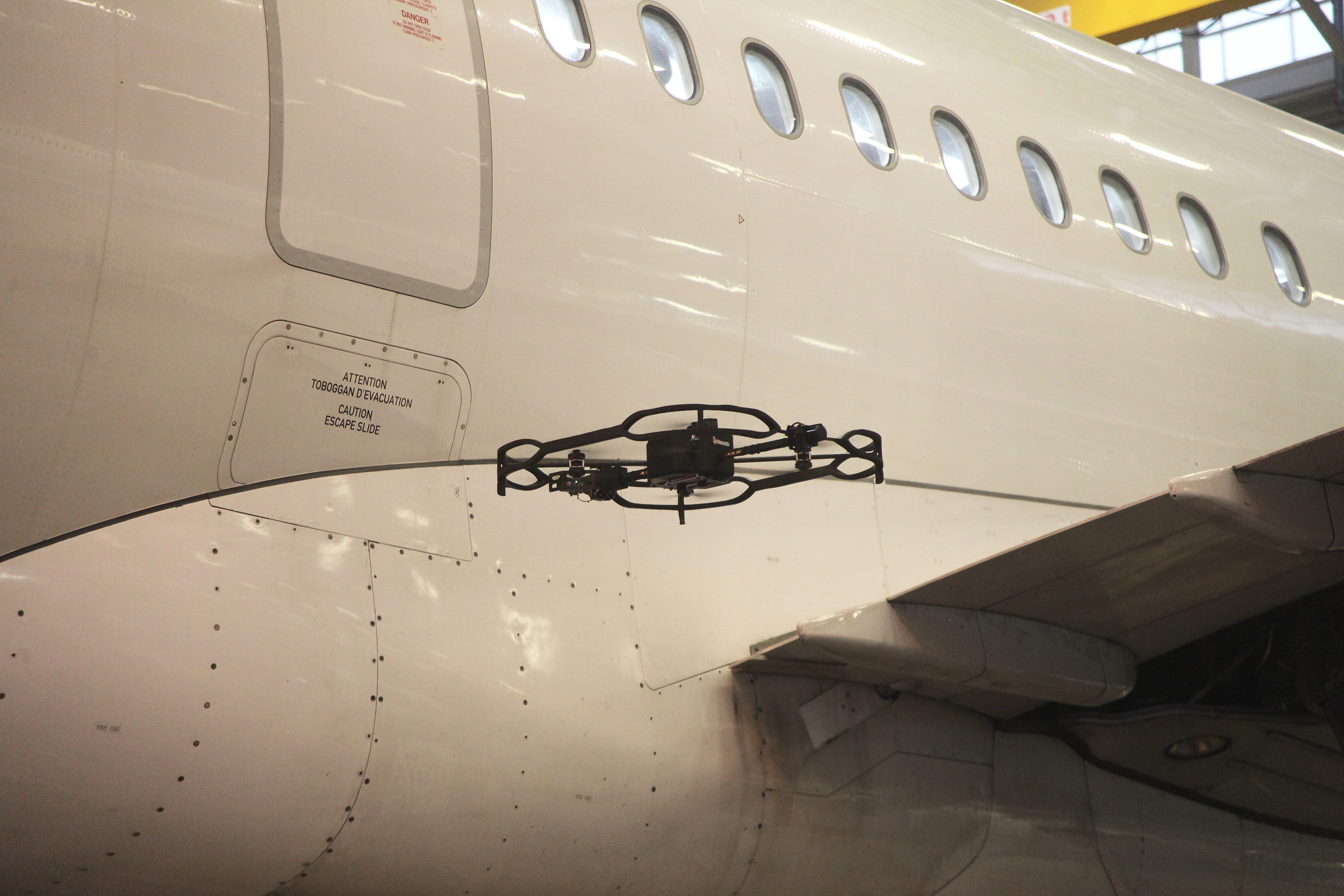 Donecle's drone is inspecting an aircraft during a maintenance operation. The picture was taken in an hangar of Air France Industries, Toulouse, France.